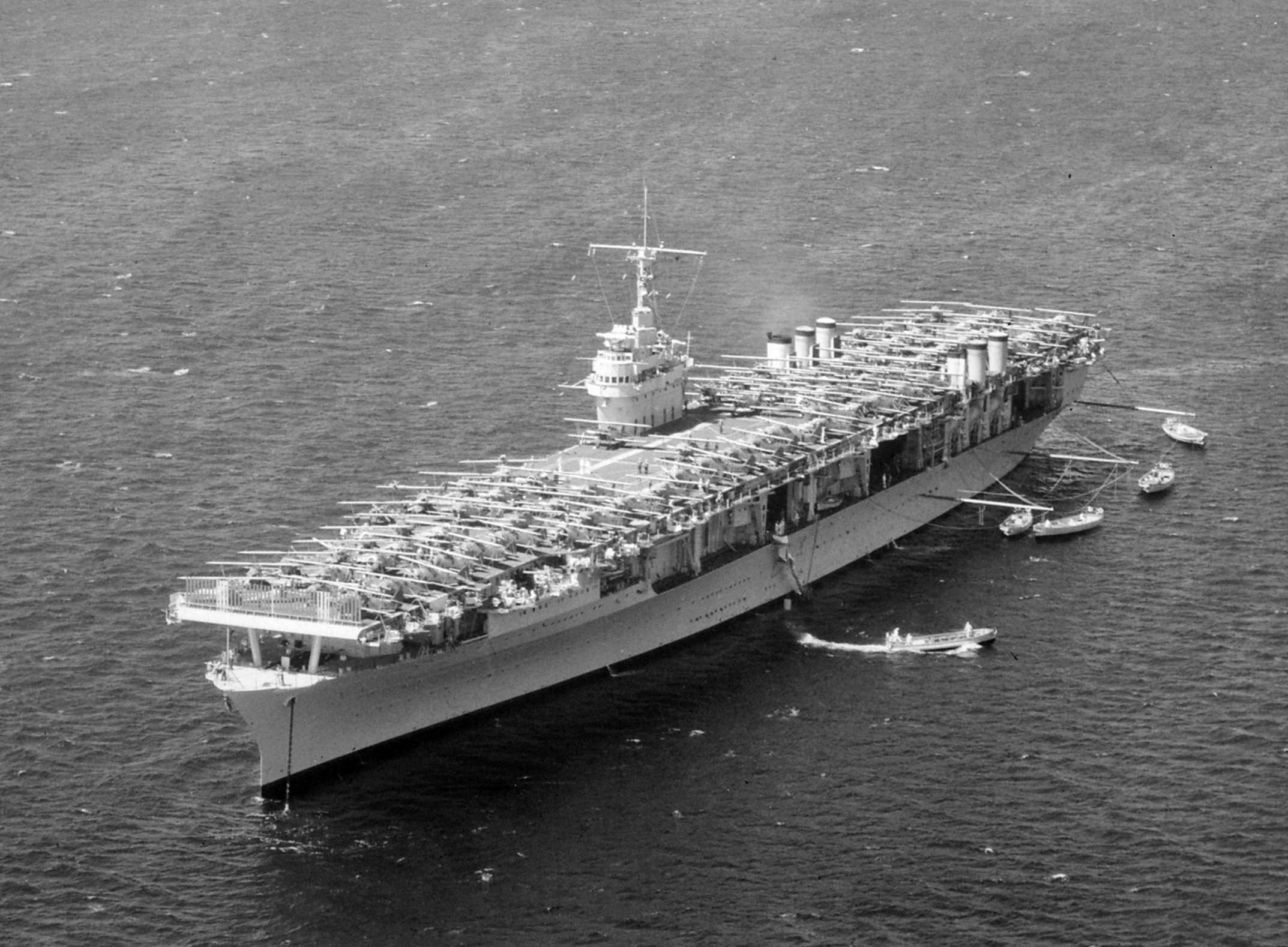 The U.S. Navy aircraft carrier USS Ranger (CV-4) at anchor on 8 April 1938.